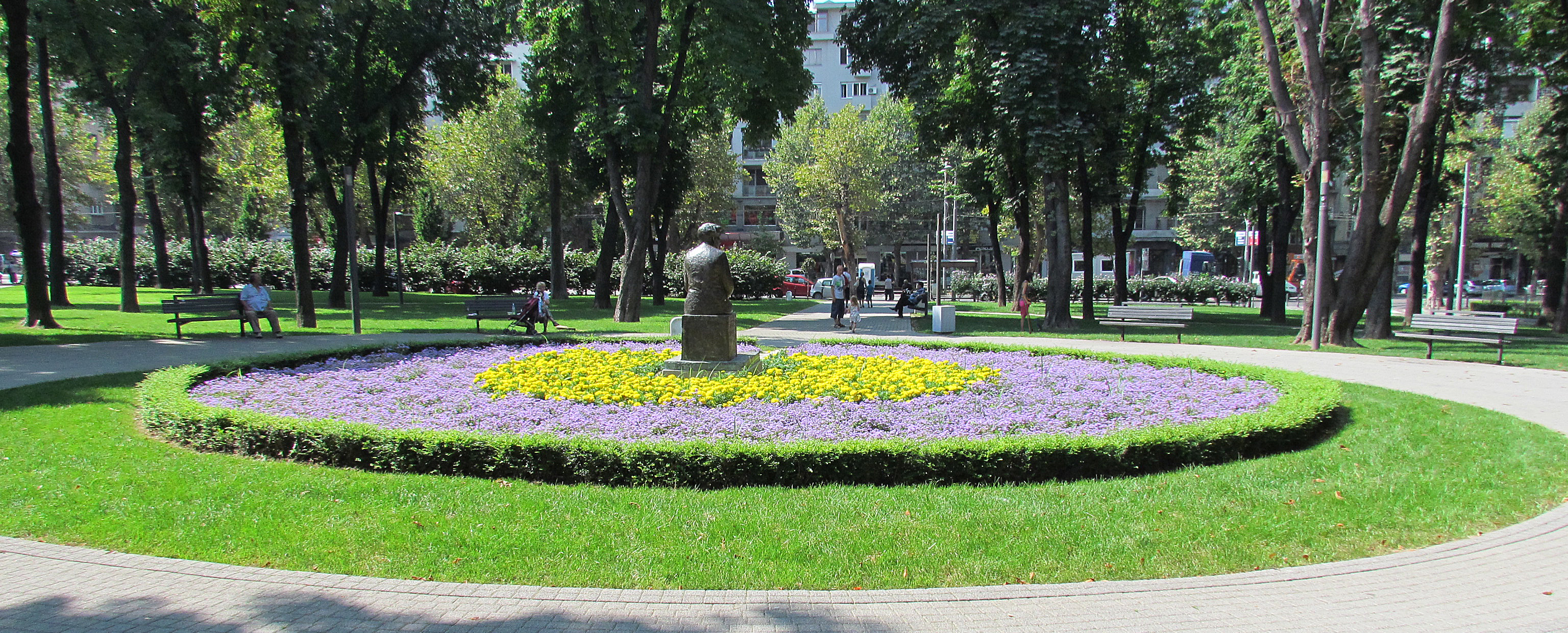 Ageratum houstonianum in Tasmaidan park, Belgrade